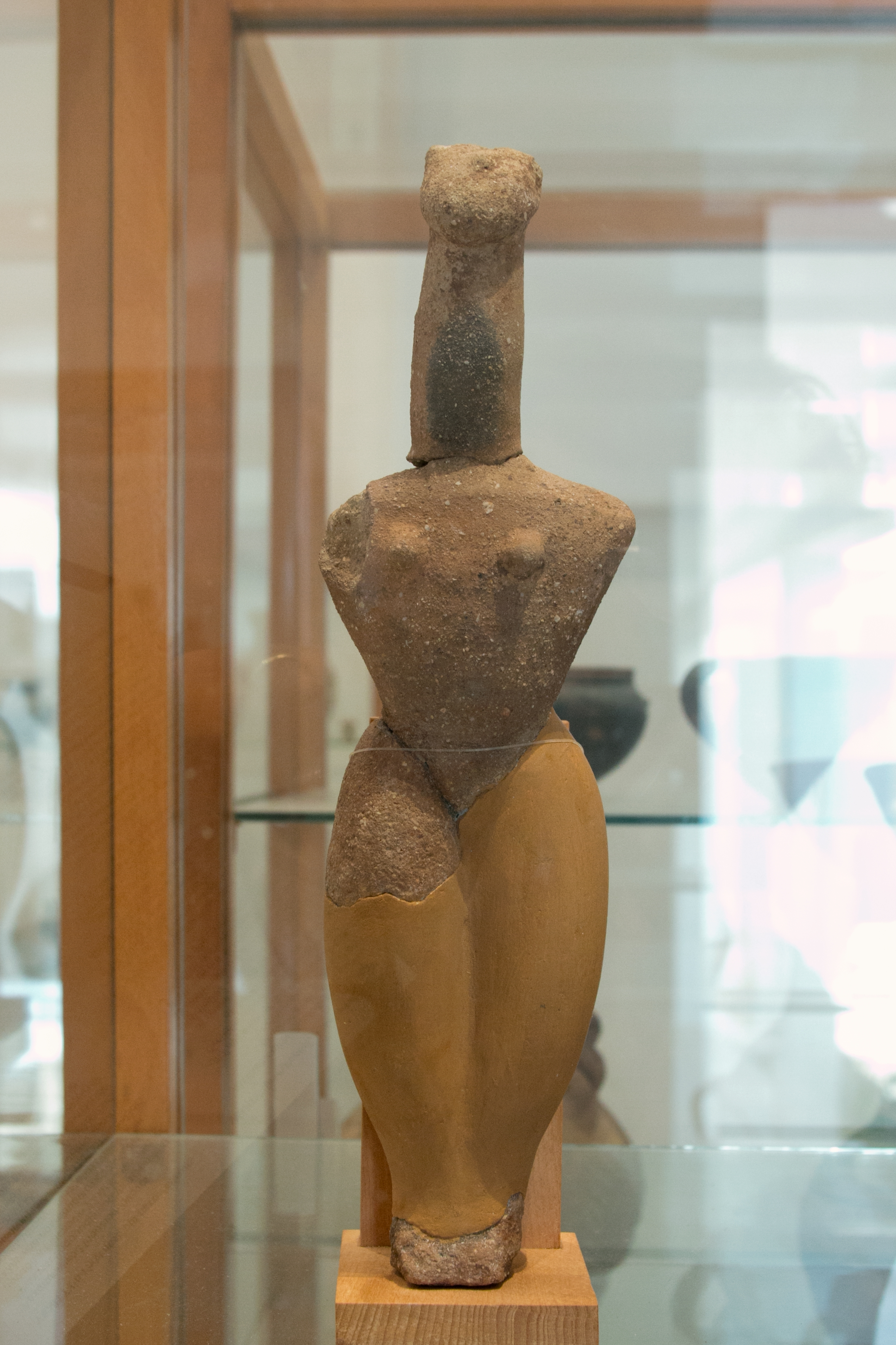 Prehistoric clay female figurine from Mykonos. Maybe from the Neolithic settlement of Ftelia (5000-4400 BC). Archaeological Museum of Mykonos.